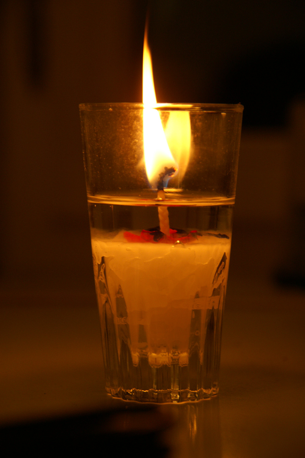 candle, candle in glass